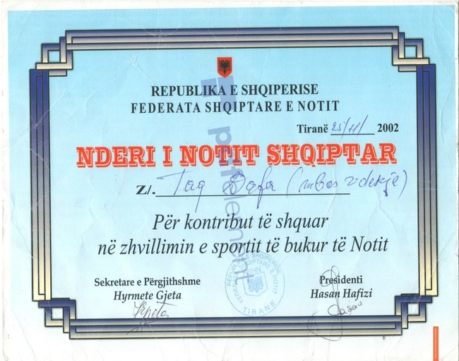 Nderi notit